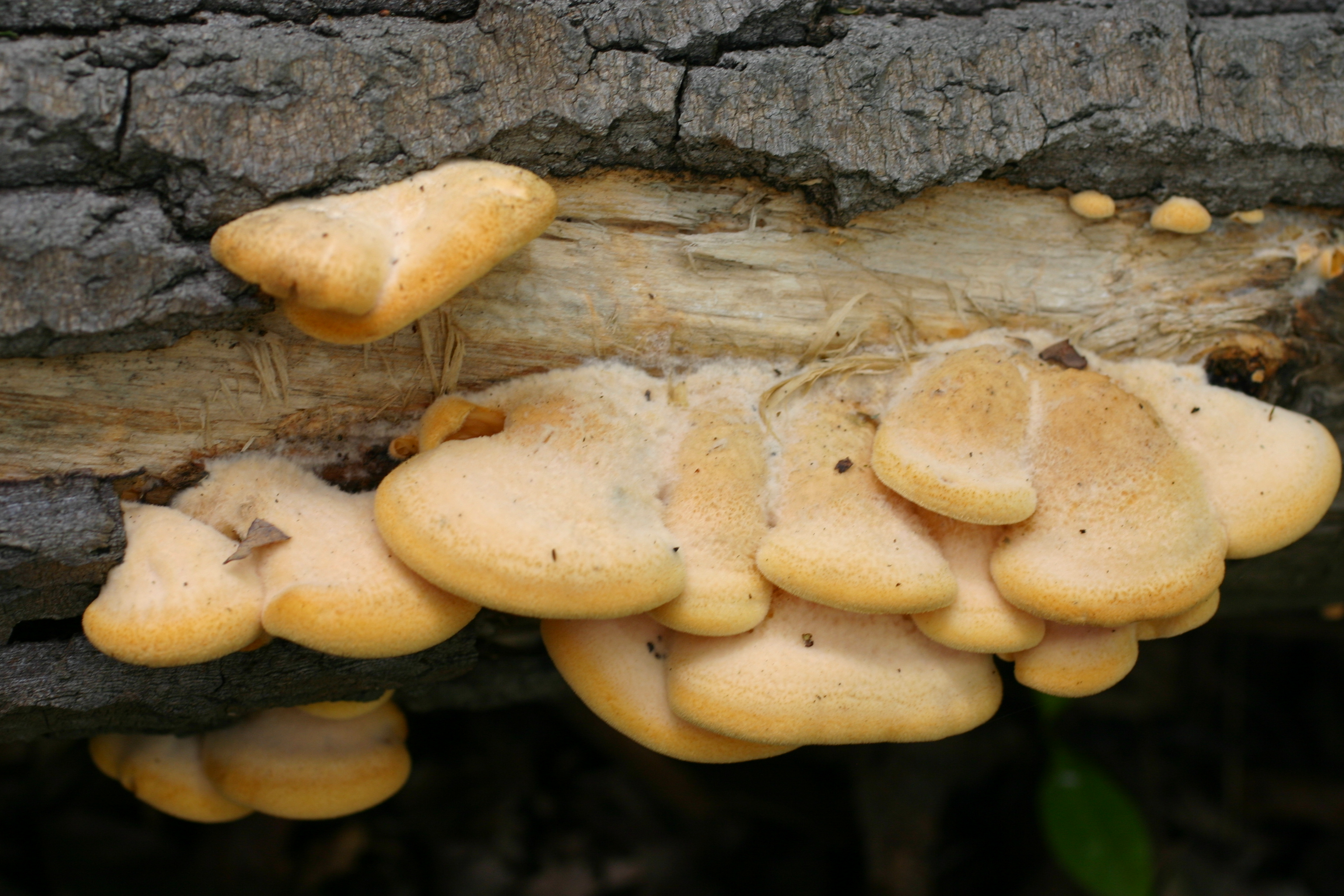 Phyllotopsis nidulans ((Pers.) Singer) Location: Beaver County, Western Pennsylvania Notes: Medium size clustered shelf mushroom. The upper surface is very hairy and orangish-tan. The margin is darker than the center and is rolled under. The tan gills converge to the center of a very broad attachment. The flesh is whitish and doesn’t bruise easily. There is no strong odor.The lack of a strong odor and no bruisability caused some doubt about the identification. What do others think?